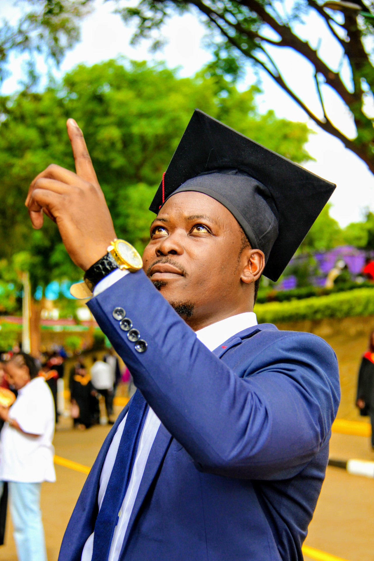 Thank God.